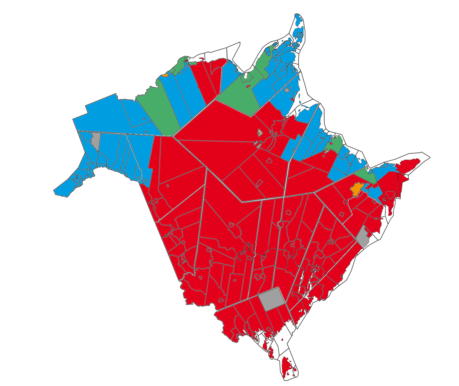 Linguistic map of New Brunswick (source: Statistics Canada, 2006 Census). red - majority English-speaking, less than 33% French-speaking orange - majority English-speaking, more than 33% French-speaking blue - majority French-speaking, less than 33% English-speaking green - majority French-speaking, more than 33% English-speaking brown - majority allophone (indigenous languages) grey - no data available